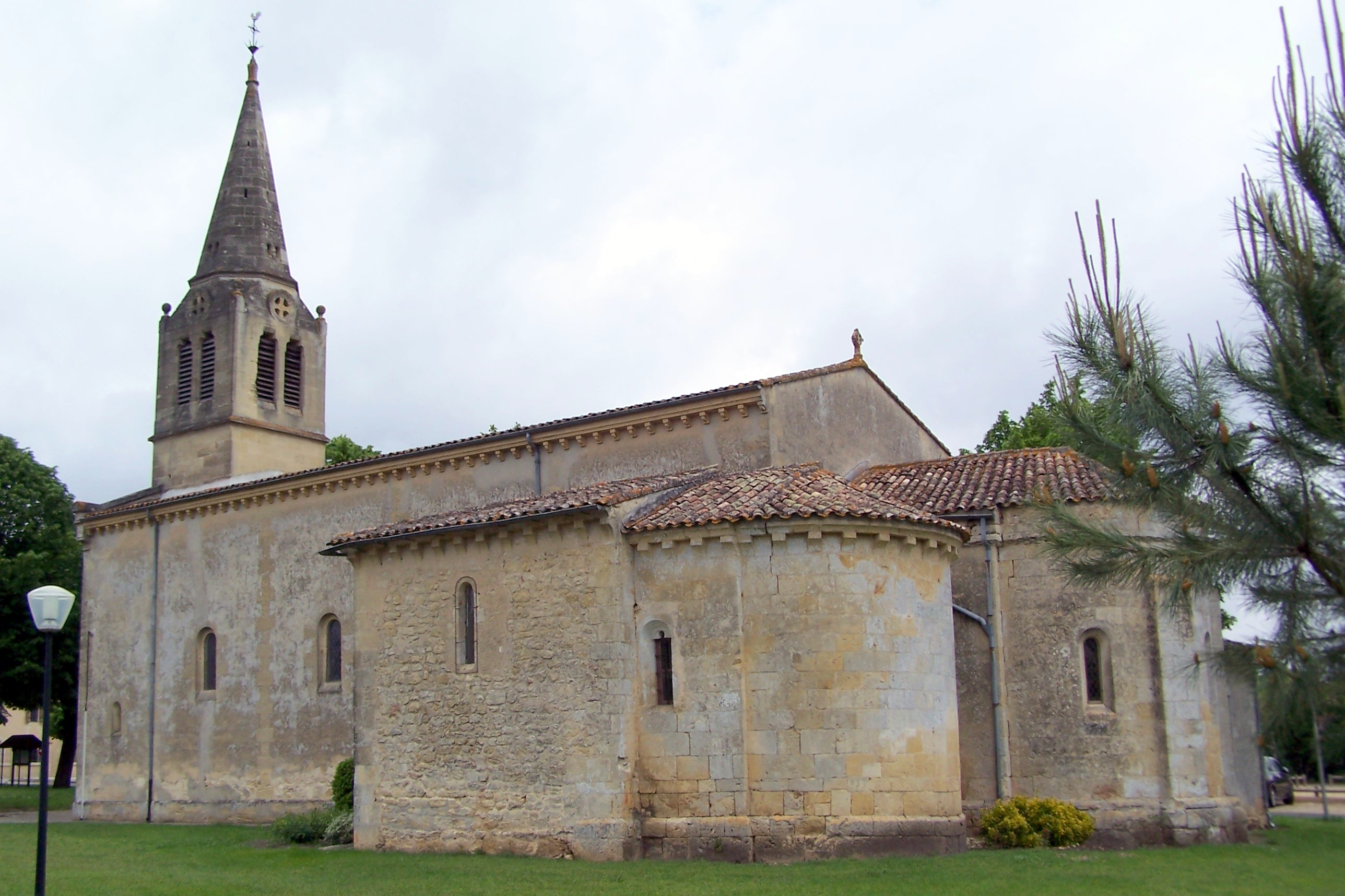 Church Saint-Louis of Roaillan (Gironde, France)